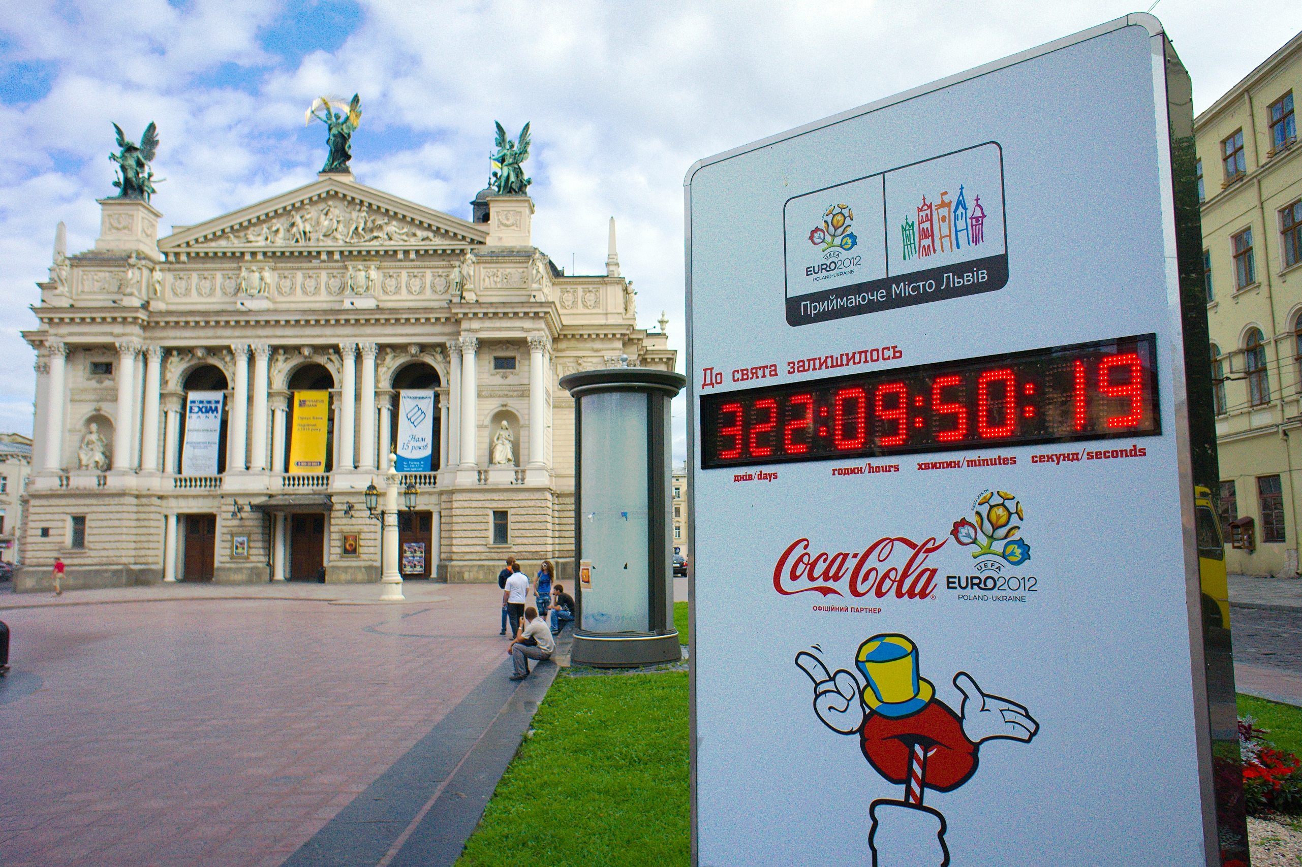 Clock in Lvov Prospekt Svobode (Freedom square), Ukraine showing time to start of EURO 2012. Opera-ballet house in background.